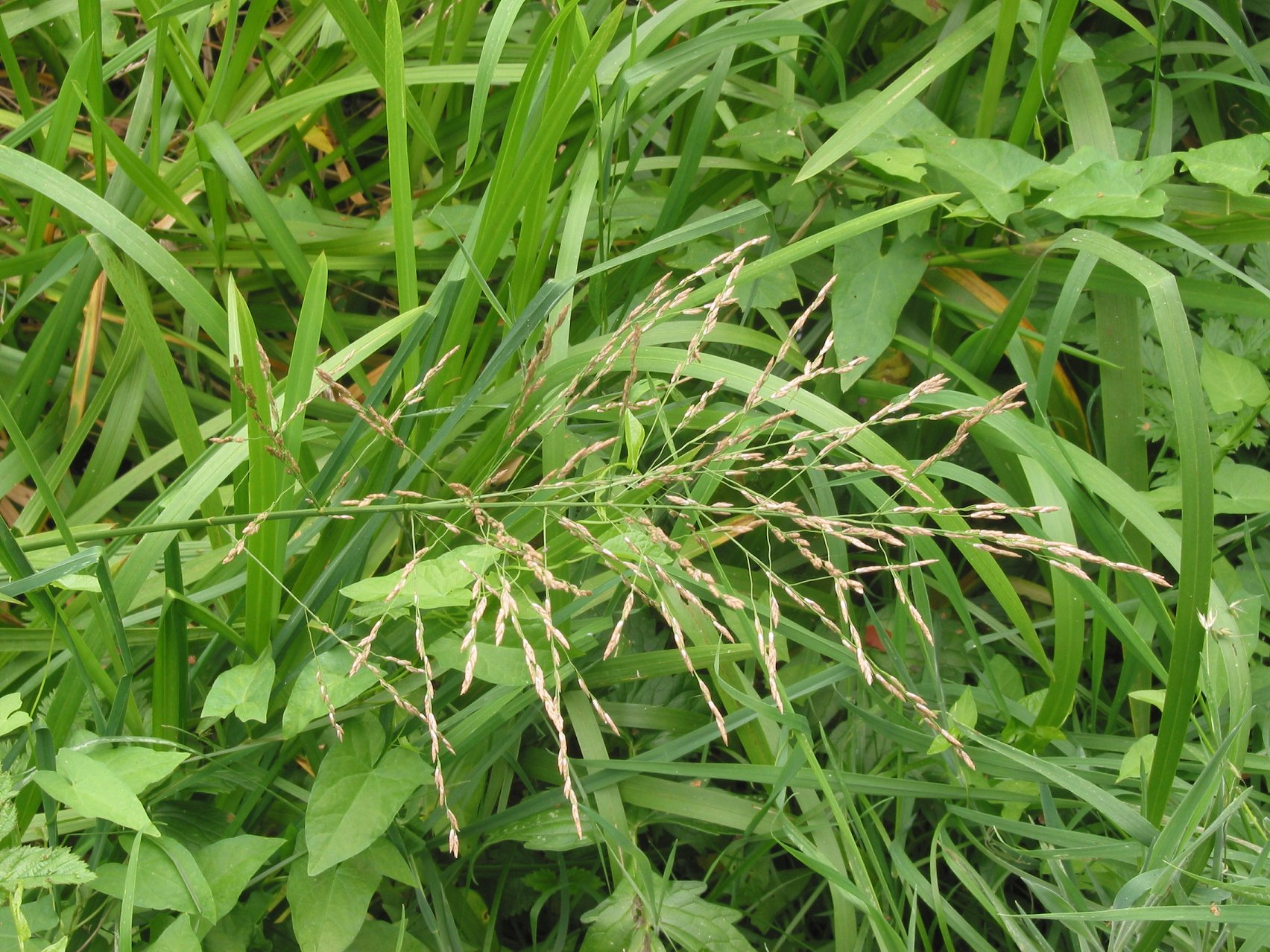 Glyceria maxima, inflorescence